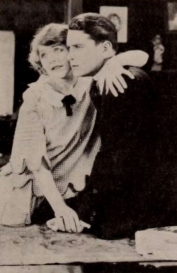 Still from the American film The Virtuous Thief (1919) with Enid Bennett and Lloyd Hughes, on page 57 of the August 16, 1919 Exhibitors Herald.